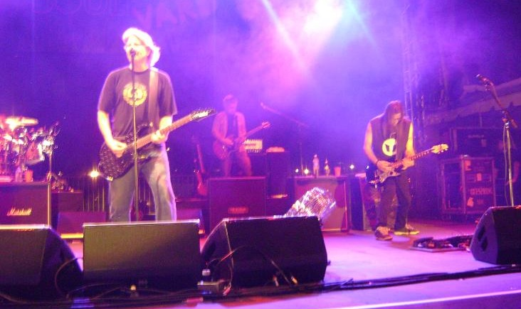 The Offspring Live @ Charlotte, NC 20-09-2008